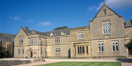 Sedbergh School main school rooms